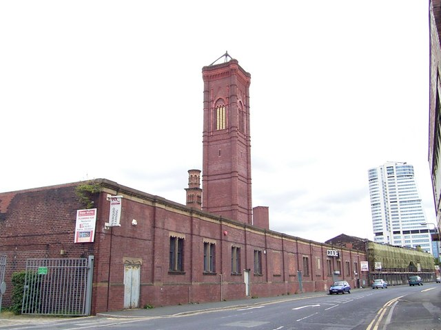 Tower Works The Tower Works on Globe Road with its Italianate dust extraction Tower and Chimneys.